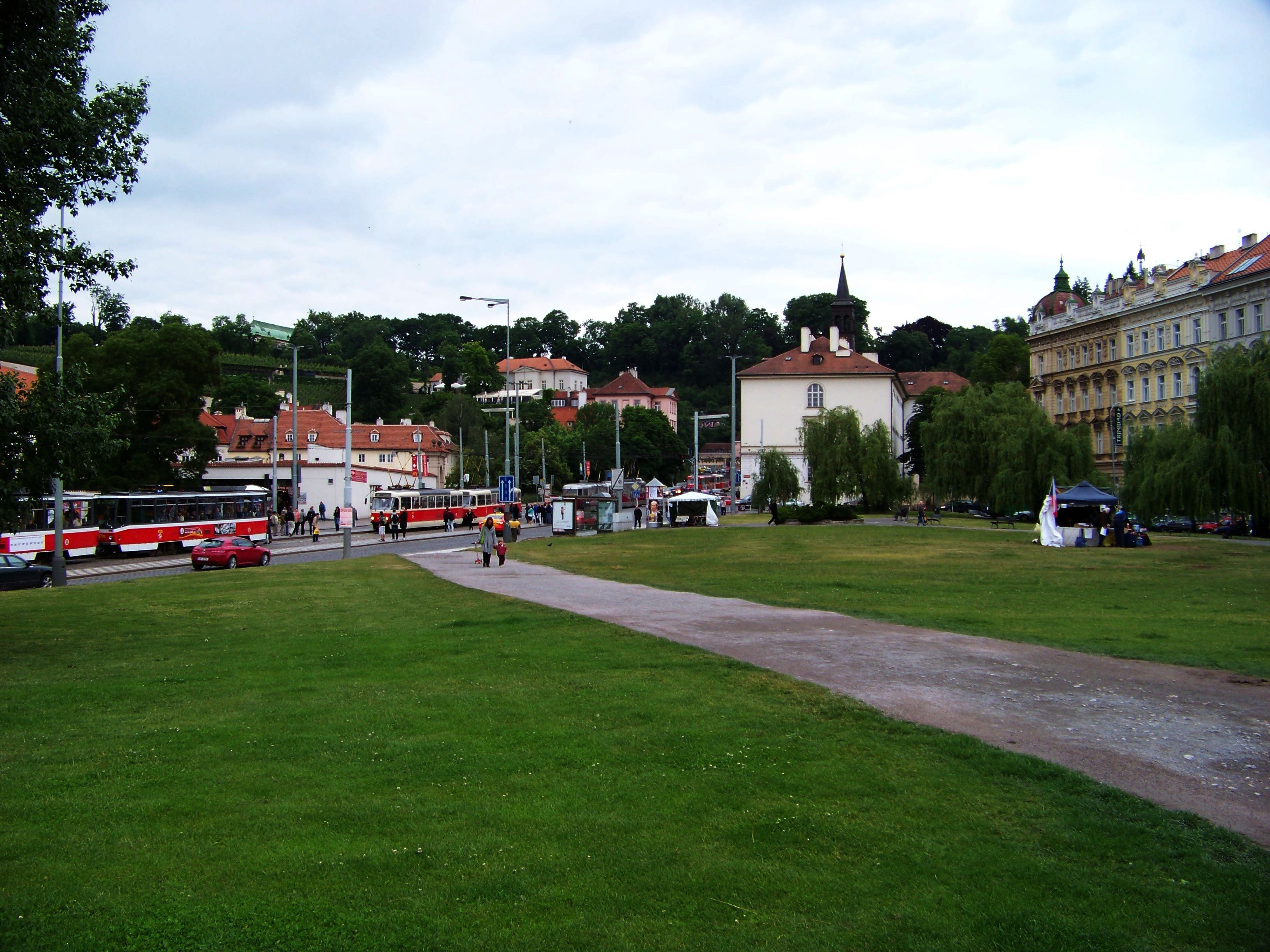 Prague-Malá Strana, the Czech Republic. Klárov. - OpenStreetMap(Info)